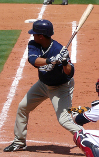 Picture I took of Terrmel Sledge on 5-10-07 23:50, 13 May 2007 . . Chrisjnelson . . 197×313 (111,322 bytes)